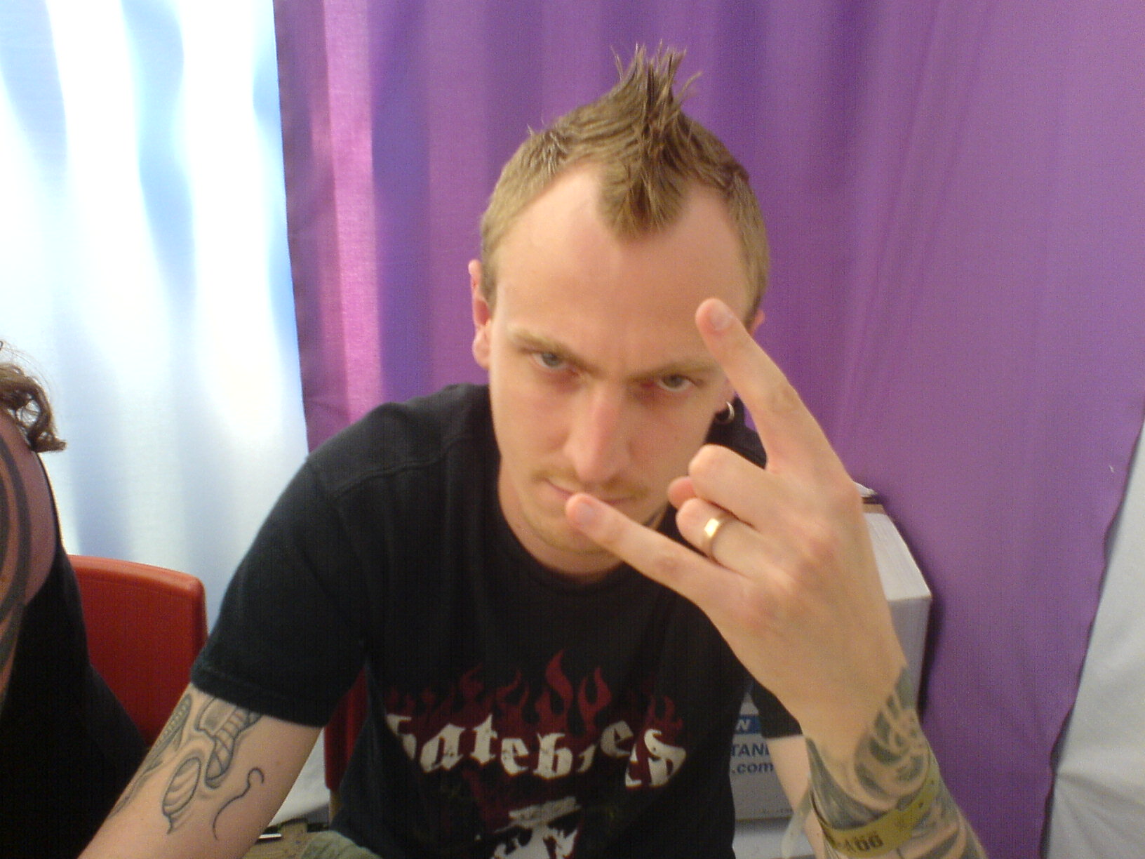 Daniel Svensson, drummer in In Flames at a signing session at Hustsfred festival 2006.